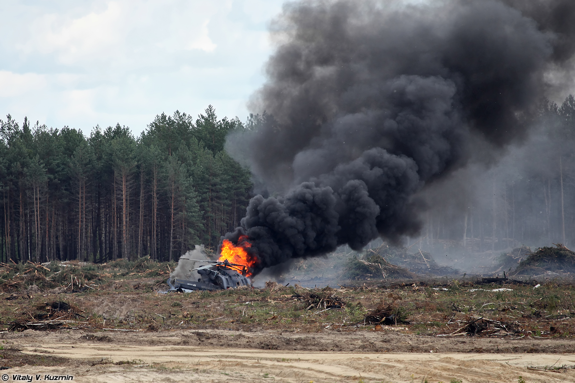 Mi-28 of Berkuty aerobatics group from 344th Centre for Combat Application and Training of Aircrew crashed today 2nd August 2015 during the Avidarts-2015 competition at Dubrovichi training range in Ryazan region. The second pilot survived, the commander colonel Igor Butenko was killed. According to the Commander-in-Chief of Air Force, the reason was the malfunction of helicopter's hydrosystem caused the failure of control system. May he rest in peace!